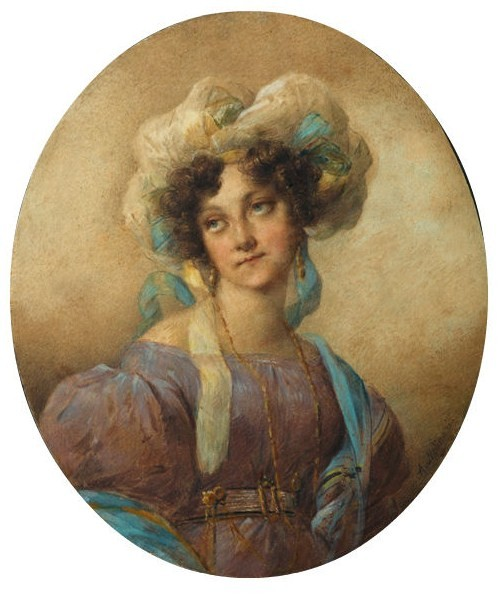 Portrait of Yelena Alexandrovna Golitsyna, née Naryshkina (1785-1855)